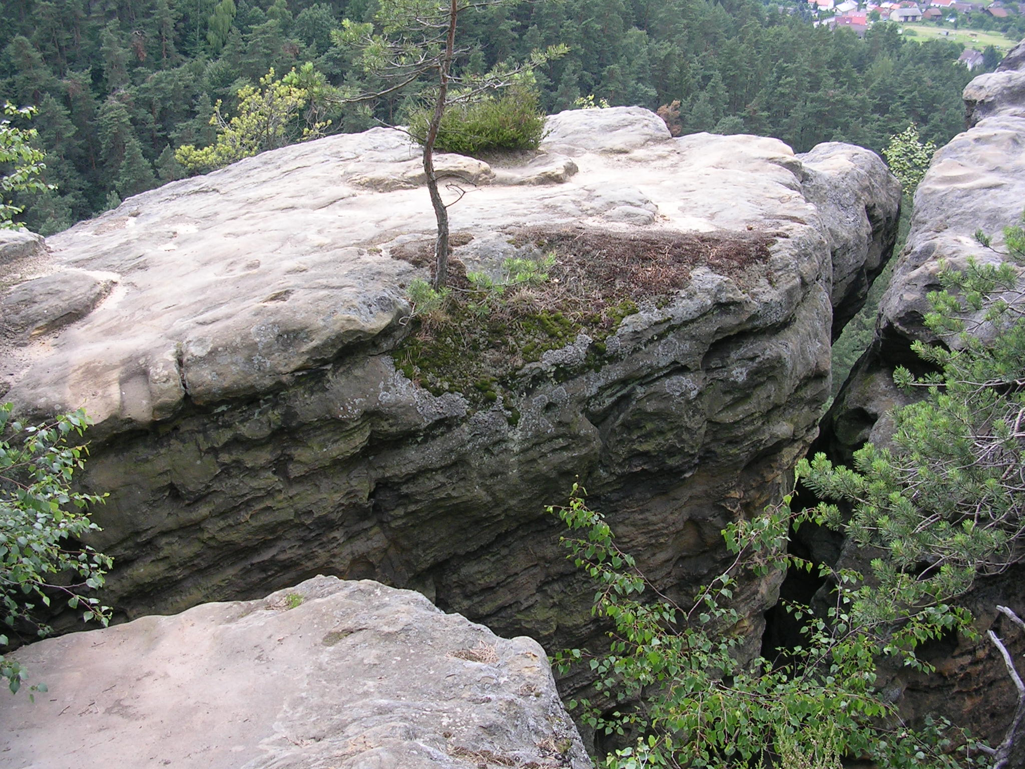 Mladá Boleslav District, Central Bohemian Region, the Czech Republic. Klamorna Castle. - Google Maps - Google Earth